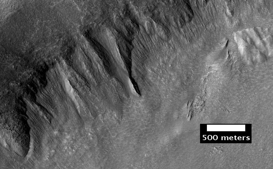 Face or start of Lobate Debris Apron, as seen by hirise. Location is 45 N and 29.5 E.